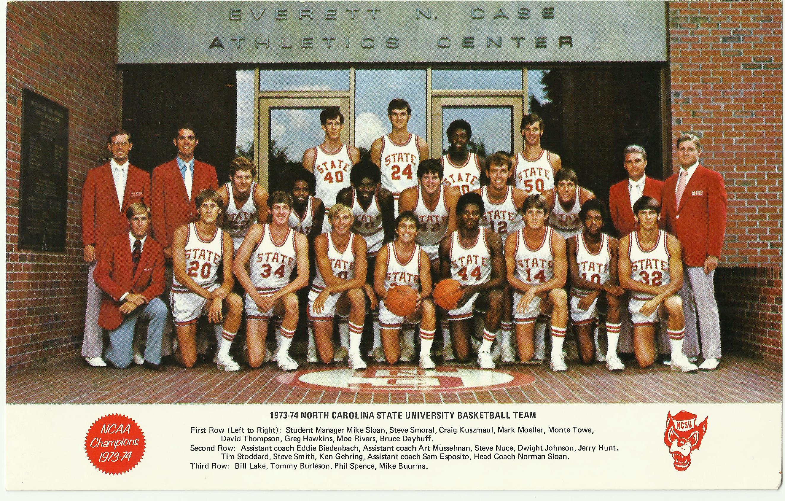 From PhC.184 Massengill Postcard Collection, August 2015 addition, State Archives of North Carolina, Raleigh, NC.